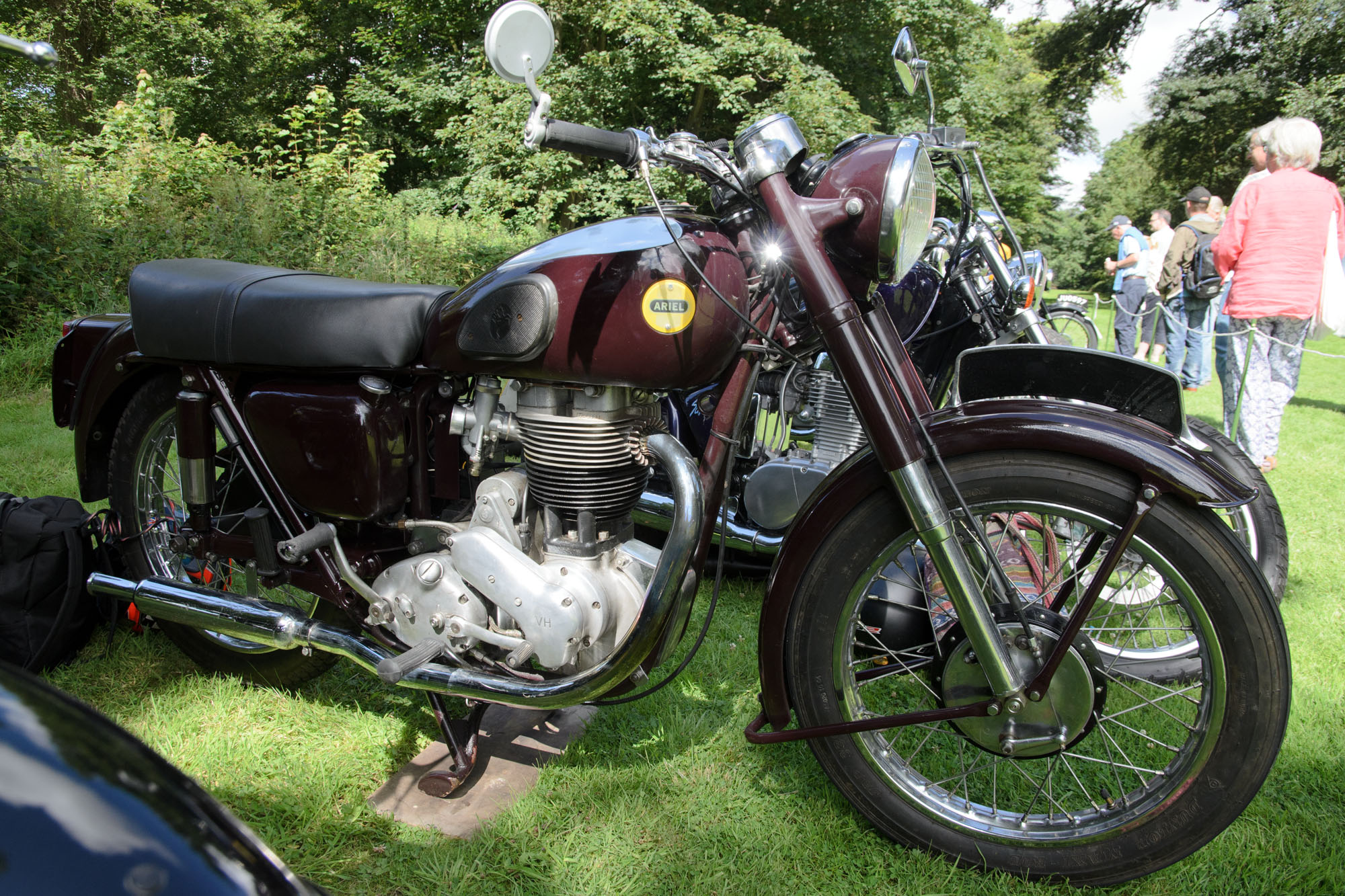 Lytham Hall Classic Car Show 31/07/2016